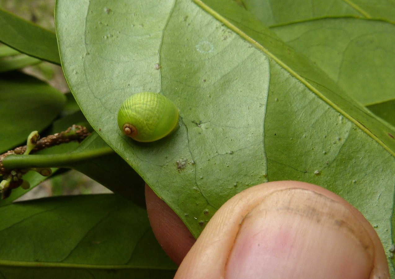 Simpulopsis rufovirens (S. Moricand, 1846) in Entre Rios, Bahia, Brazil (Panasonic DMC-ZS3)